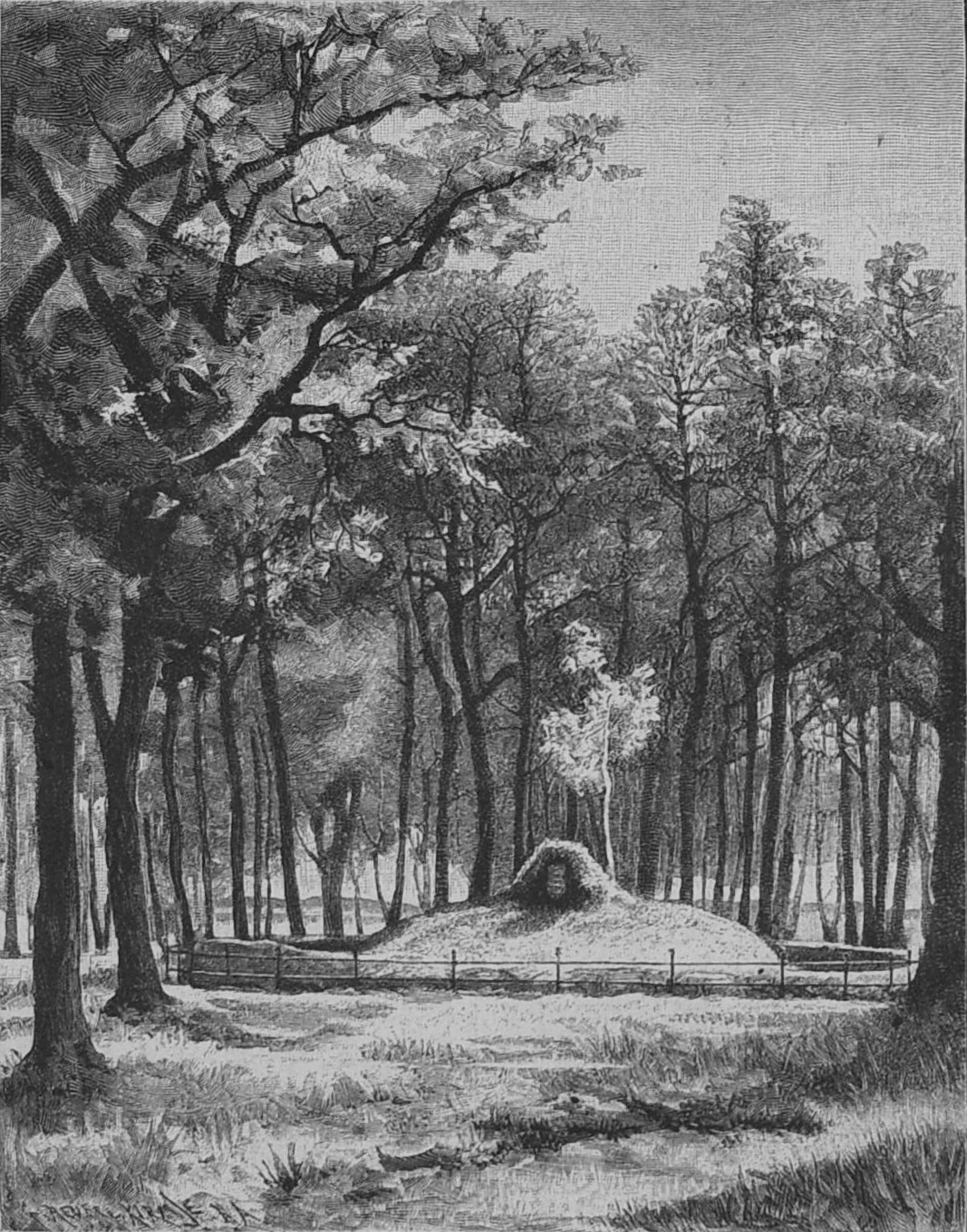 caption: "Der Friesenhügel in der Hasenheide. Originalzeichnung von H. Petzet."